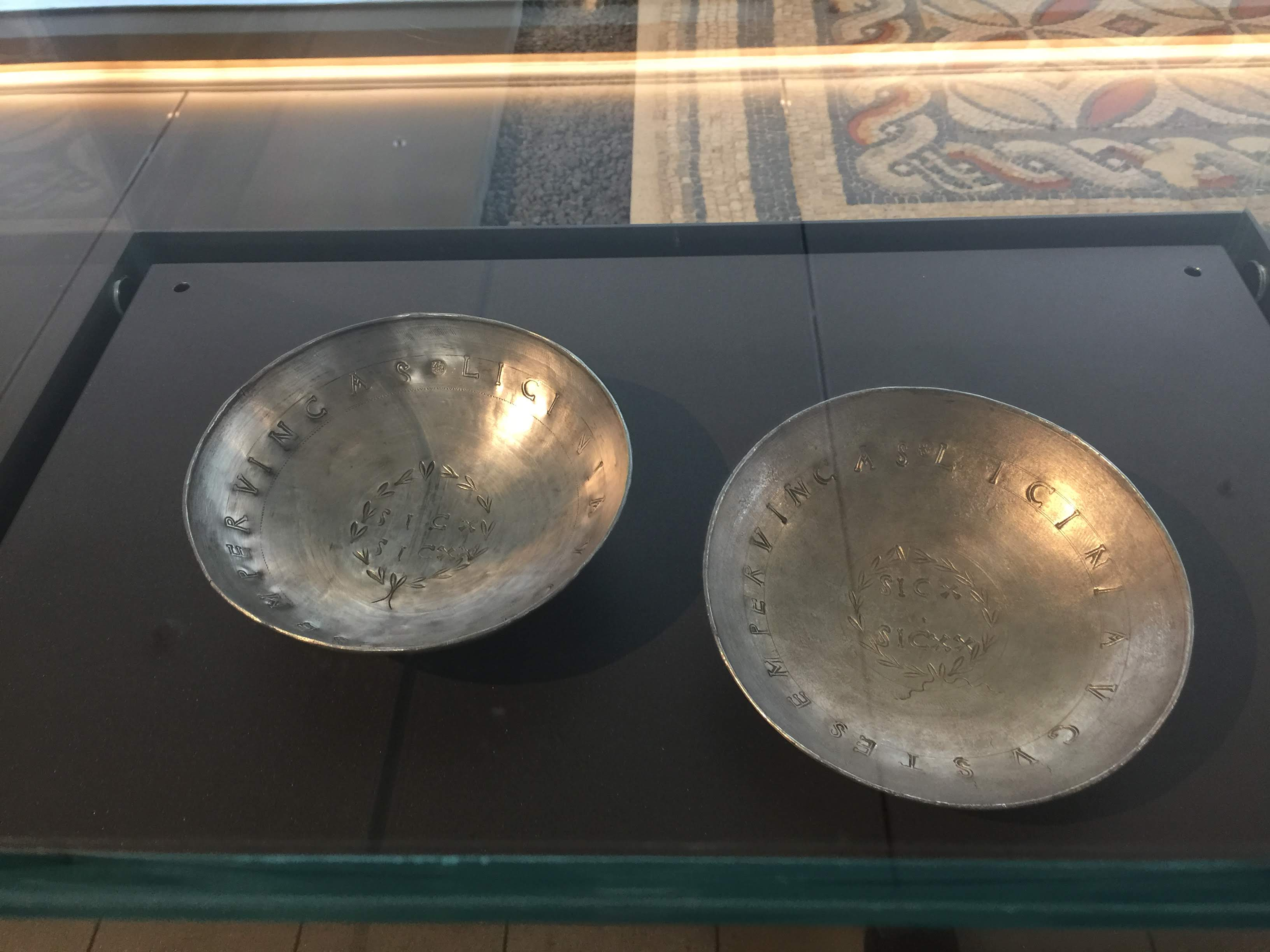 Licinius plates from the 4th century (317/318), National Museum of Belgrade